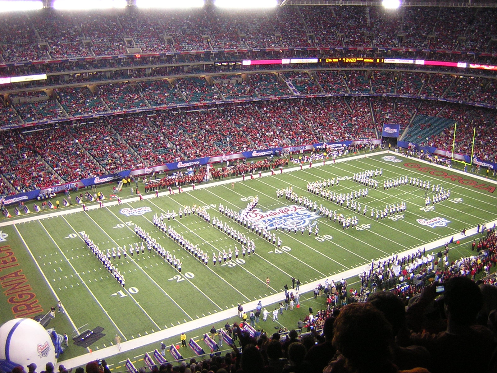 Virginia Tech Marching Virginians display HOKIES at the 2006 Chick-fil-A Bowl.